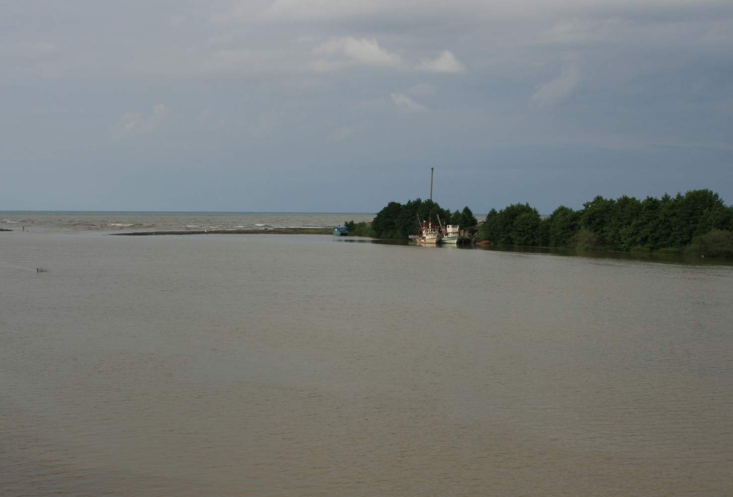 The Supsa River & its confluence into the Black Sea, Guria, Georgia